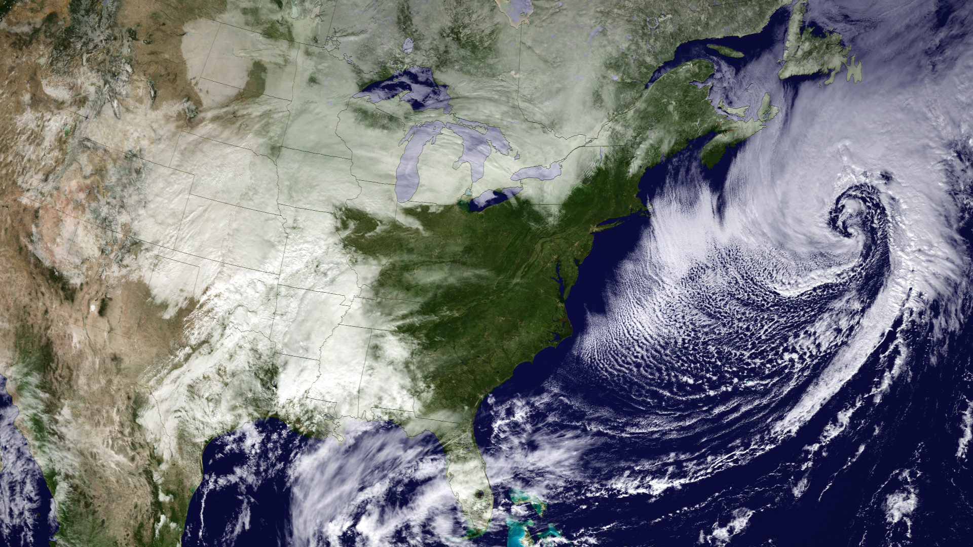 Merging both GOES East and West imagery, three weather systems are shown spanning the U.S. To the far west, a stationary system is currently dumping up to two feet of snow over the Denver region. In the South and Plains, a line of severe storms stretches from Texas to Missouri. Over the Atlantic the remnants of an extratropical storm move out to sea. Data from the GOES-15 and -13 satellites were acquired on February 3, 2012 at 1715z. --Caption provided by NOAA